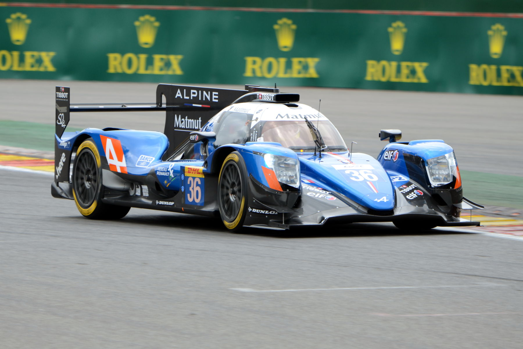 Signatech Alpine Matmut's Alpine A470 Gibson Driven by Romain Dumas, Gustavo Menezes and Matthew Rao at the 2017 6 Hours of Spa